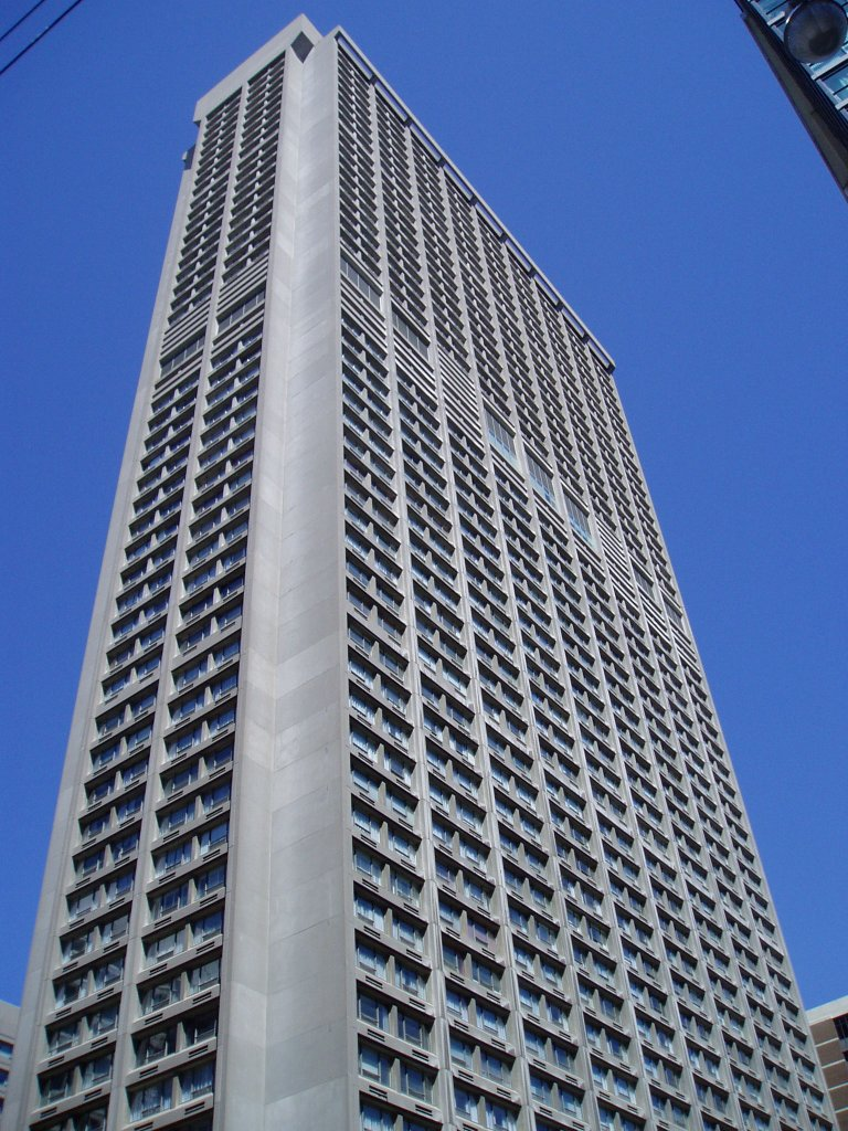 The residential tower of the Manulife Centre complex in Toronto, Canada. Taken by SimonP in April 2005